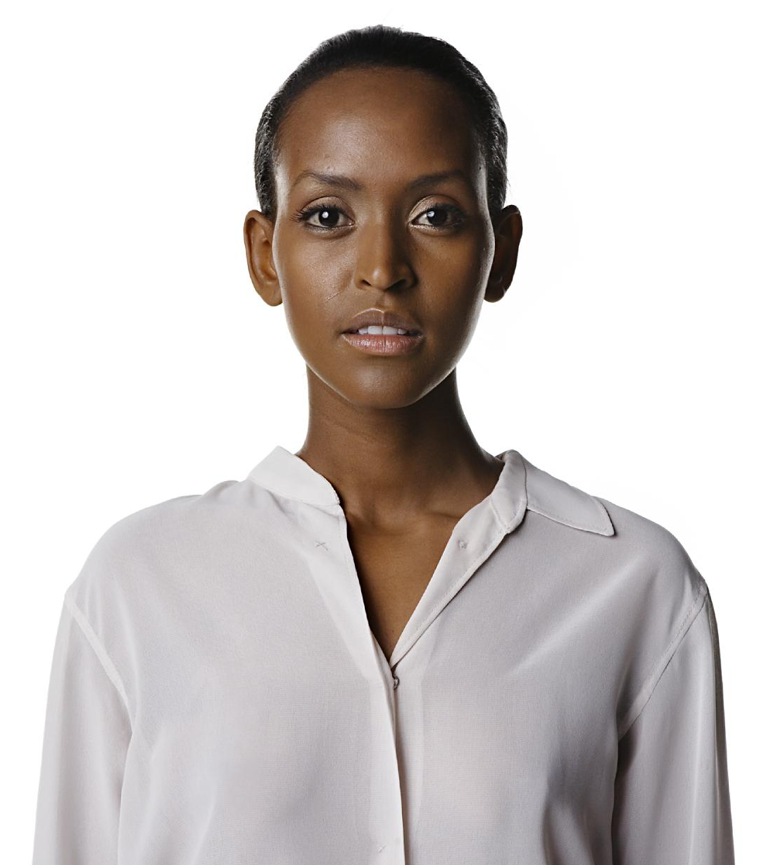 Ethiopian singer-songwriter Asha Ali.